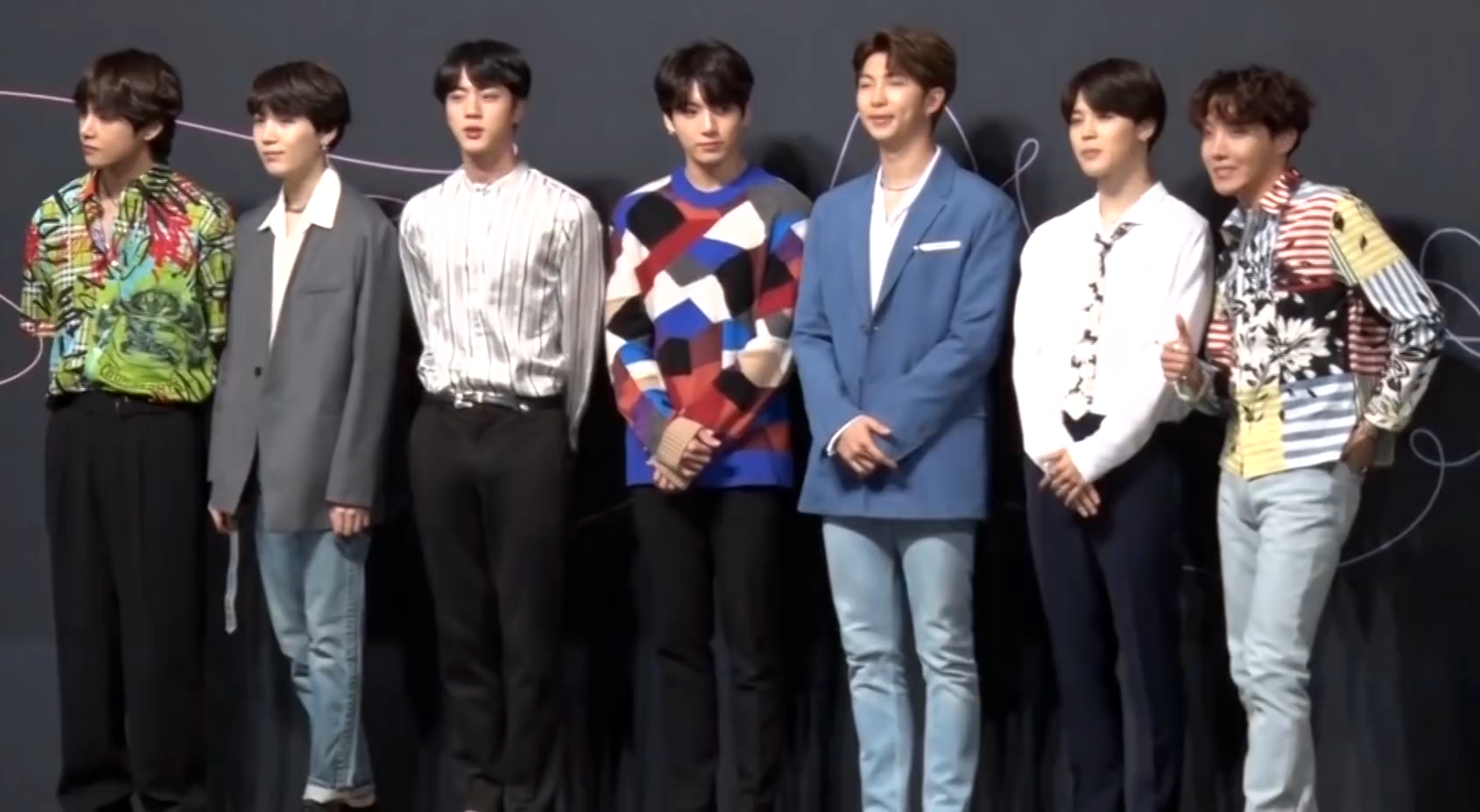 BTS at a press conference for their 2018 LP Love Yourself: Tear on 24 May 2018